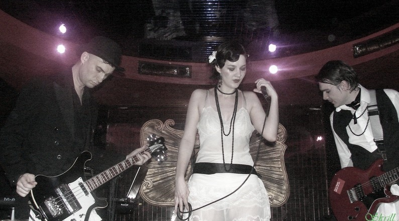 Live-Picture Katzenjammer Kabarett